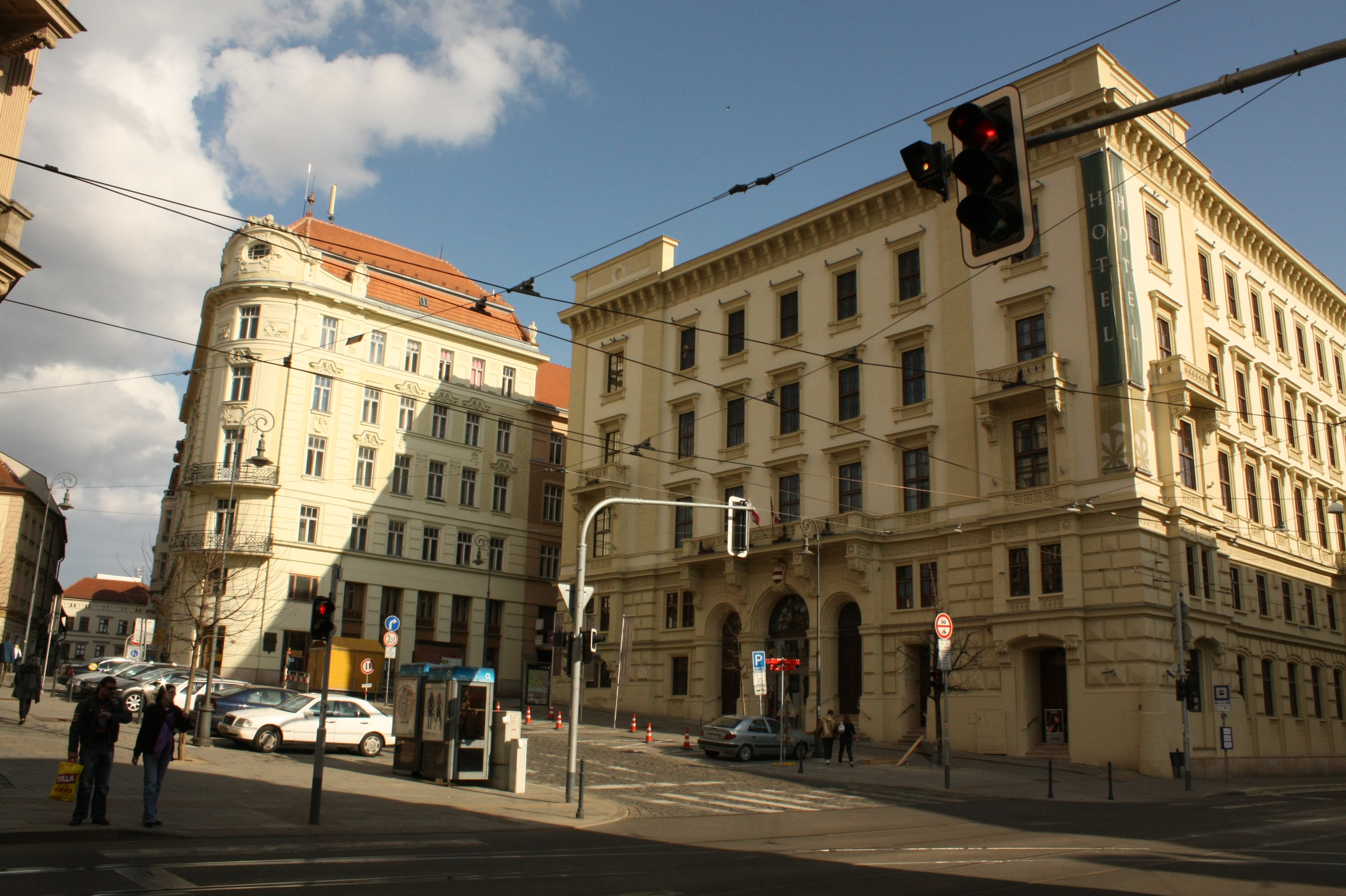 Šilingr square, Brno, Czech Republic